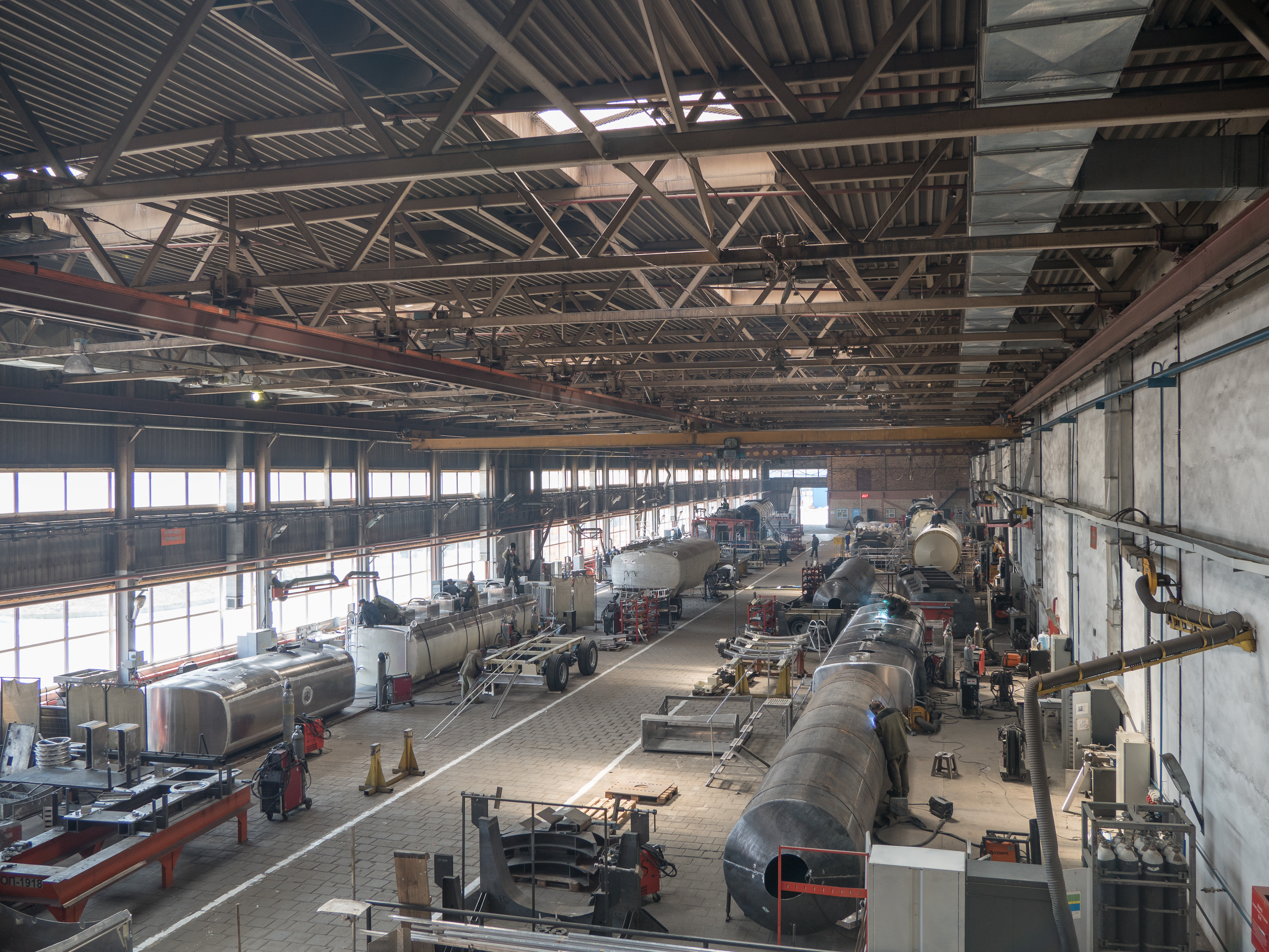 Производственное помещение завода